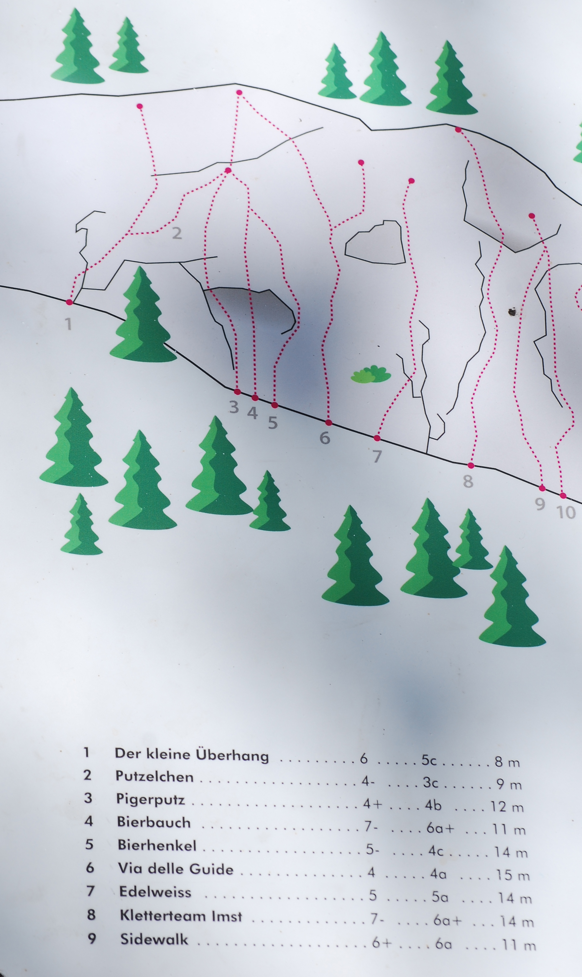 Topo Walchenbach (Tarrenz)